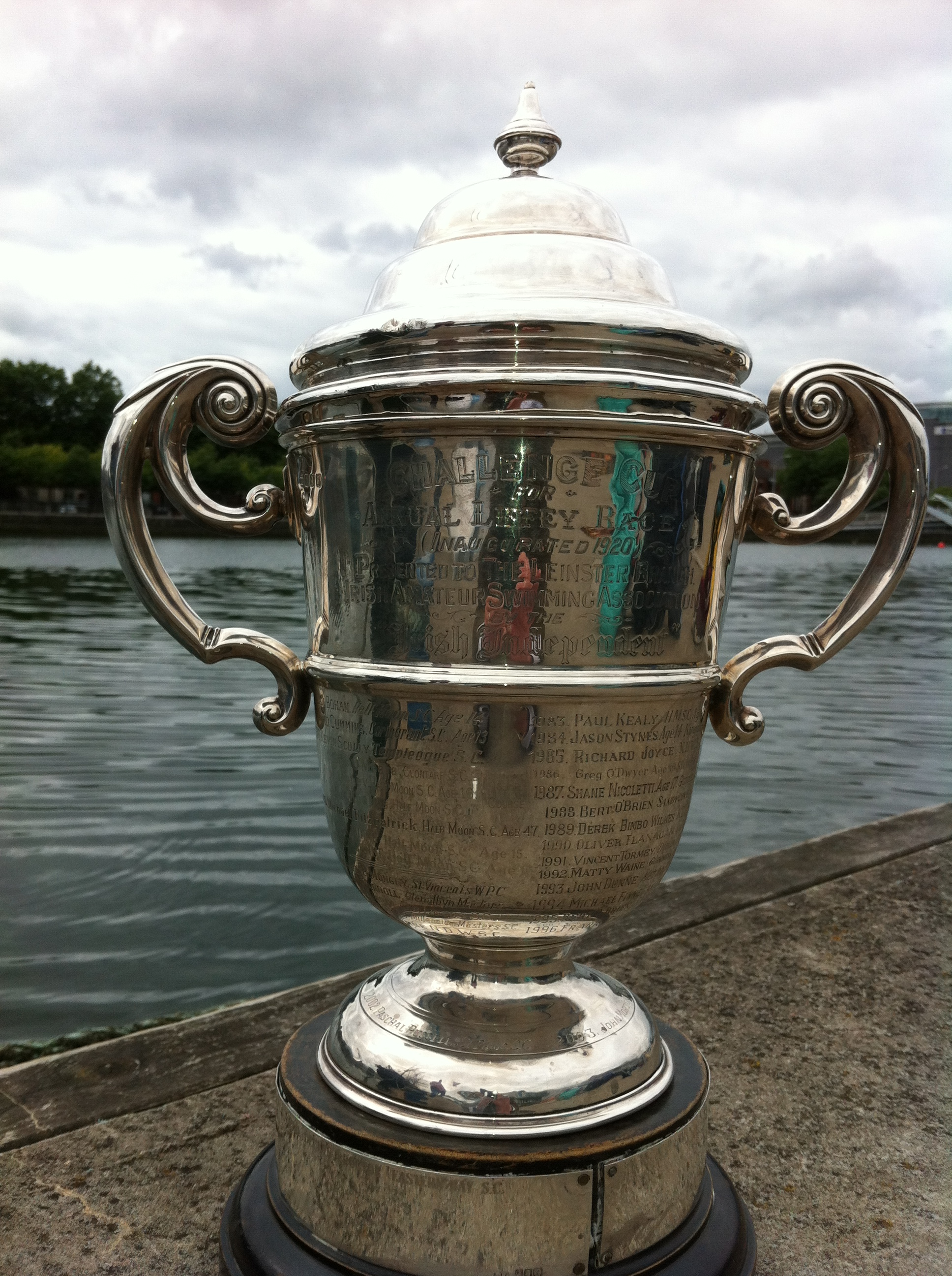 The Independent Cup was donated in 1921 by Independent Newspapers Ltd as a perpetual challenge trophy for the winner (men) of the annual Liffey Swim over a 1.25 mile course. The exact inscription on the front of the cup is "Challenge Cup for Annual Liffey Race (Inaugurated 1920) Presented to the Leinster Branch Irish Amateur Swimming Association by the Irish Independent". The names of all male winners, including that of the inaugural winner J.J. Kennedy in 1920, are engraved on the Cup up to 2004, and now on the base of the trophy since 2005. The trophy was made by Hopkins & Hopkins, Silversmiths, O'Connell Street Bridge, Dublin (Maker mark: H&H) and bears the Dublin Assay Office hallmarks and date letter for 1921 (Britannia, Harp with Crown, Letter F). Hopkins & Hopkins are famous for making the original Sam Maguire Cup, the GAA All Ireland Football Trophy. The initial value of the Irish Independent Cup was 50 guineas. In addition to holding the Challenge Cup for a year, the winner was presented with a solid gold medal.